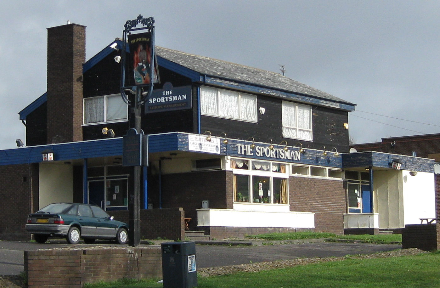 Sportsman public house, Stoney Rock Lane, Burmantofts, Leeds LS9 7TZ